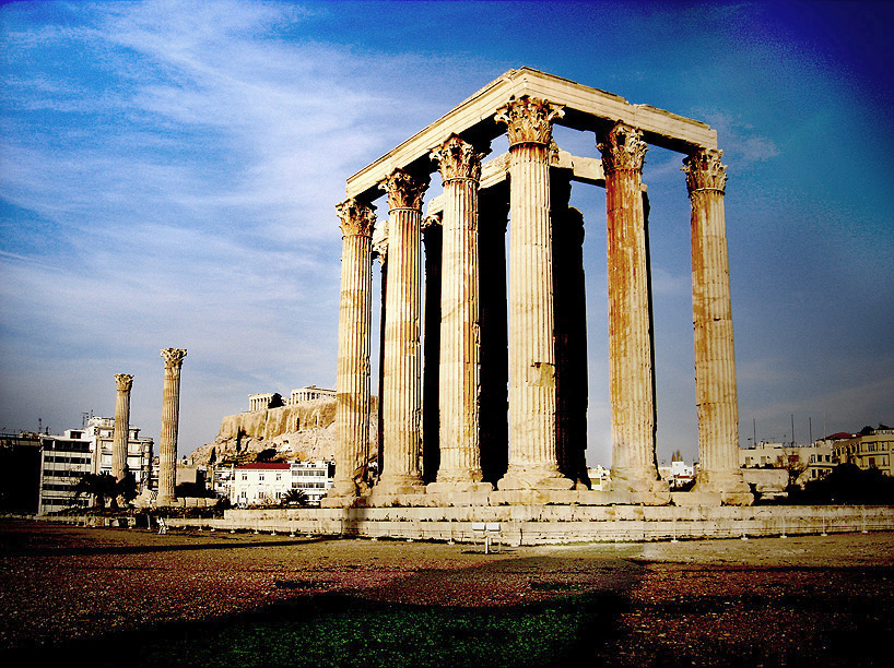 Temple of Olympian Zeus, Athens, Greece.